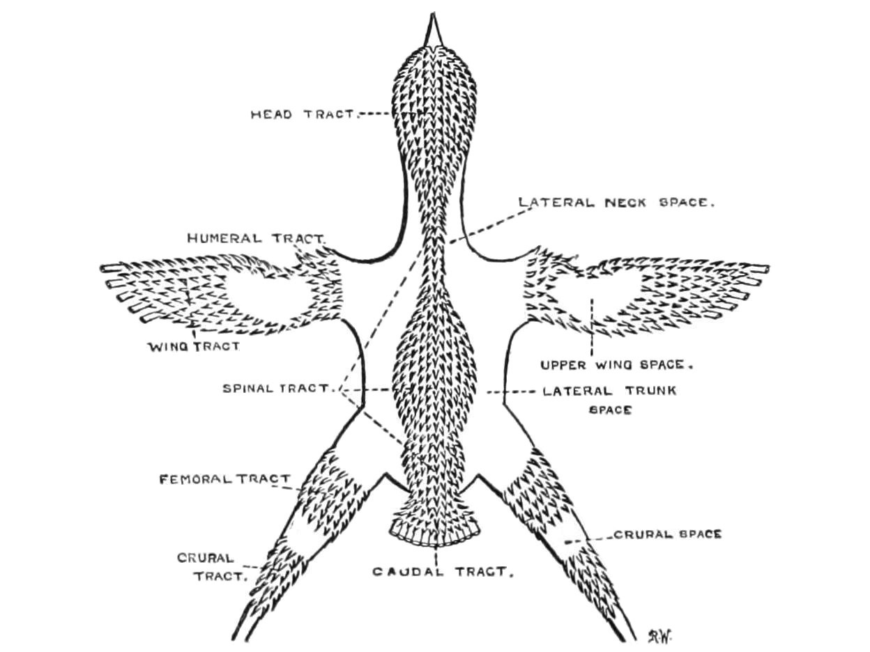 Pterylosis of typical passerines Caption: Dorsal view of Turdus musicus, to show the pterylosis of a typical Passerine Bird. (From a specimen in the Index Series in the Natural History Museum, by permission of Professor Flower, C.B., F.R.S.)